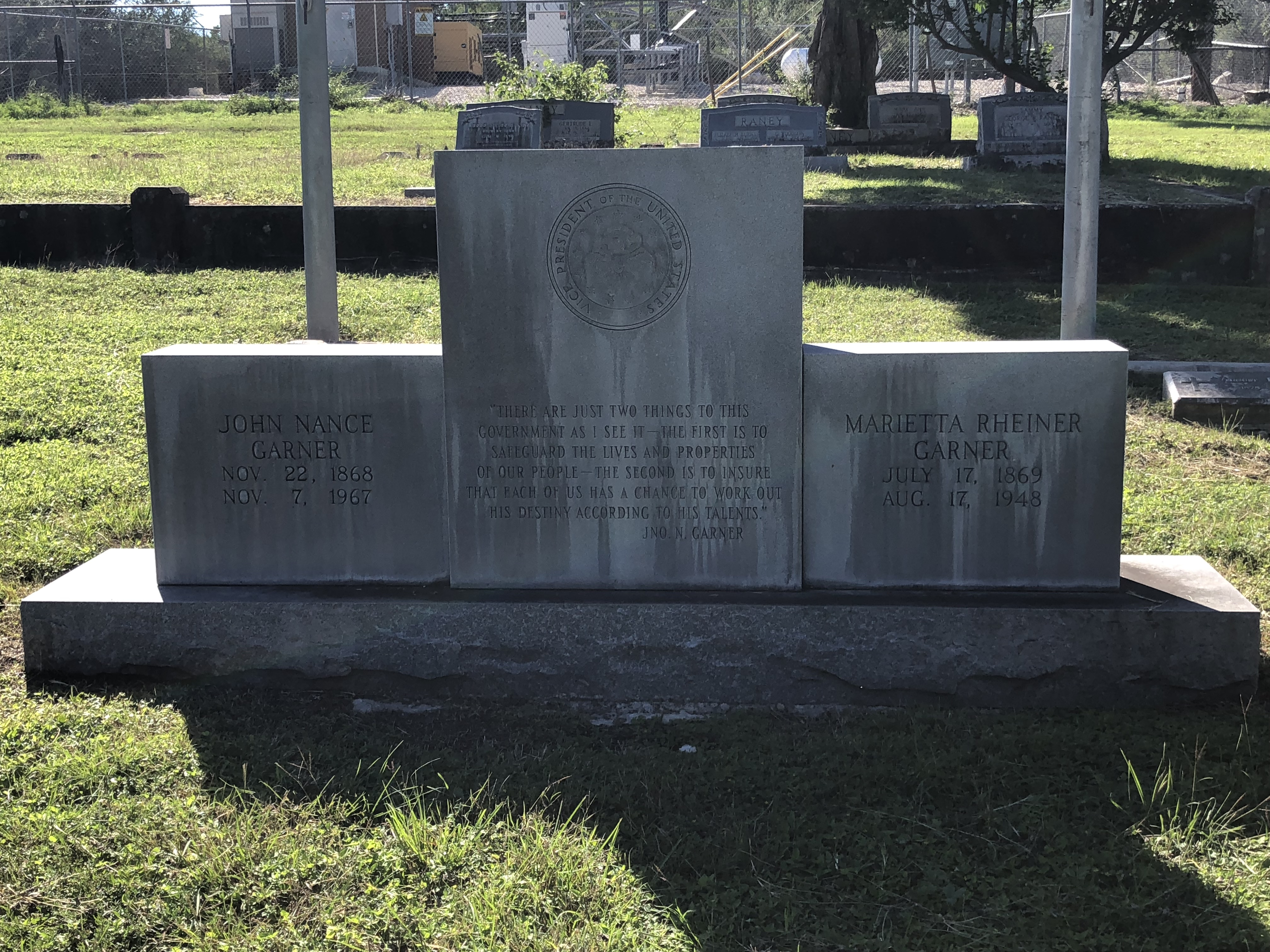 Burial Plot for John Nance Garner and Marietta Rheiner Garner - Uvalde, TX